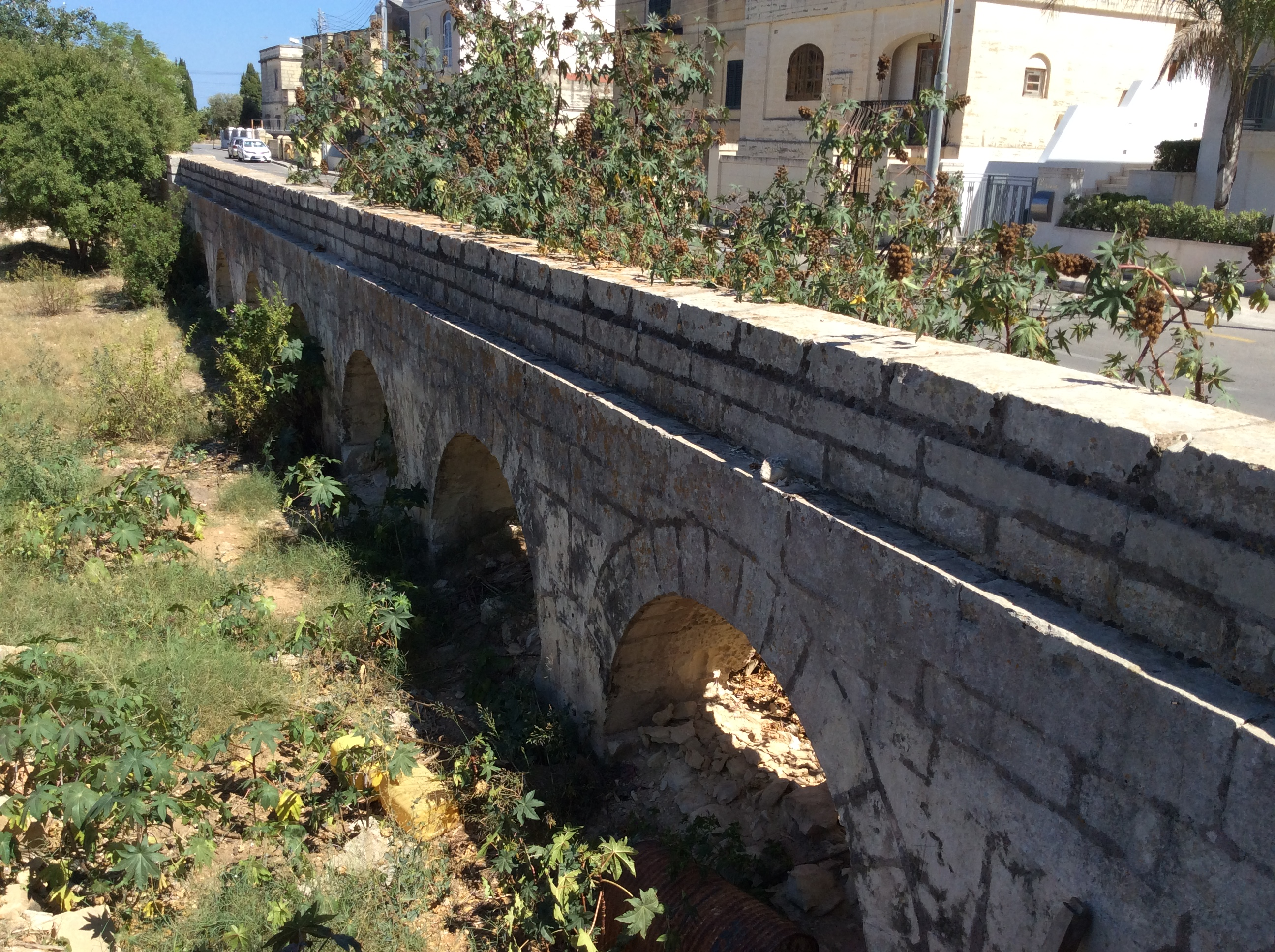 Just before the end of the Aqueduct In Attard